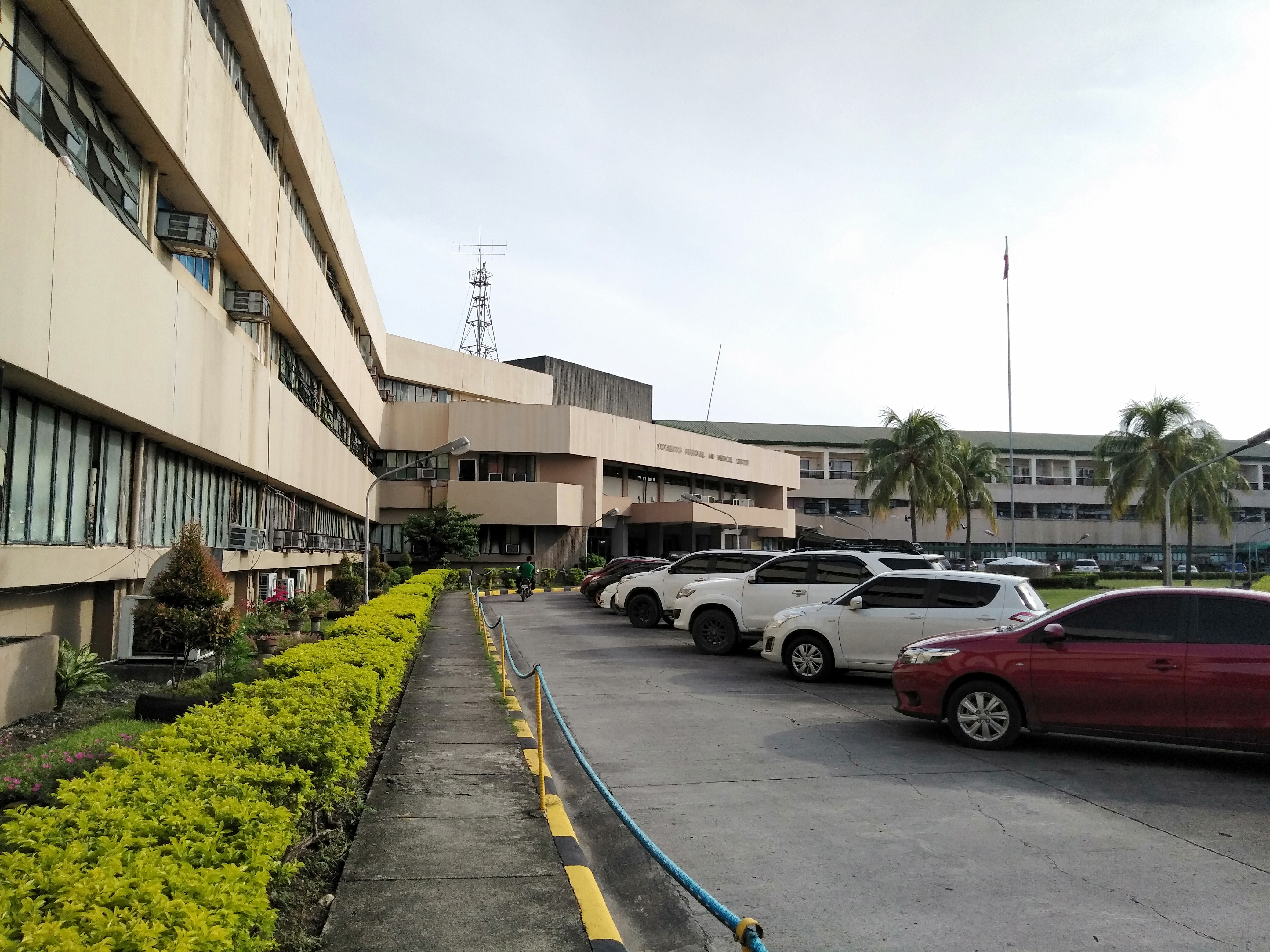 Cotabato Regional and Medical Center Main Building